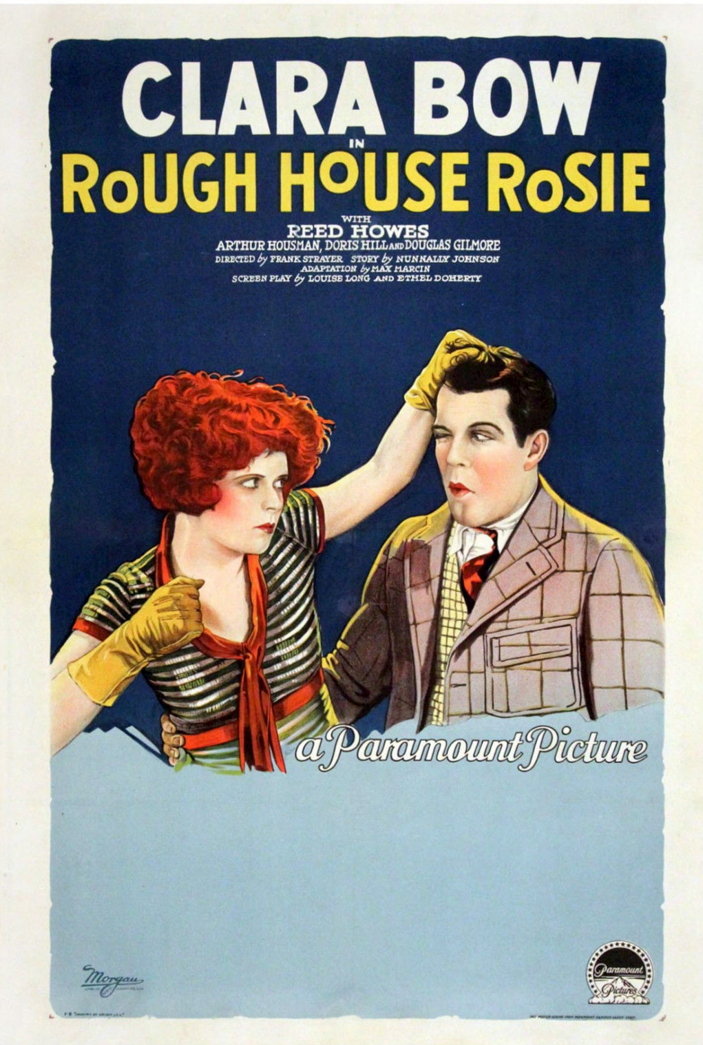 Poster for the American film Rough House Rosie (1927). The item has no copyright markings on it as can be seen in the links above. At lower left is a logo for the Morgan Litho company-printers of the poster-and Country of origin USA. At lower right is the Paramount logo and "This poster leased from Paramount Famous Lasky Corp.